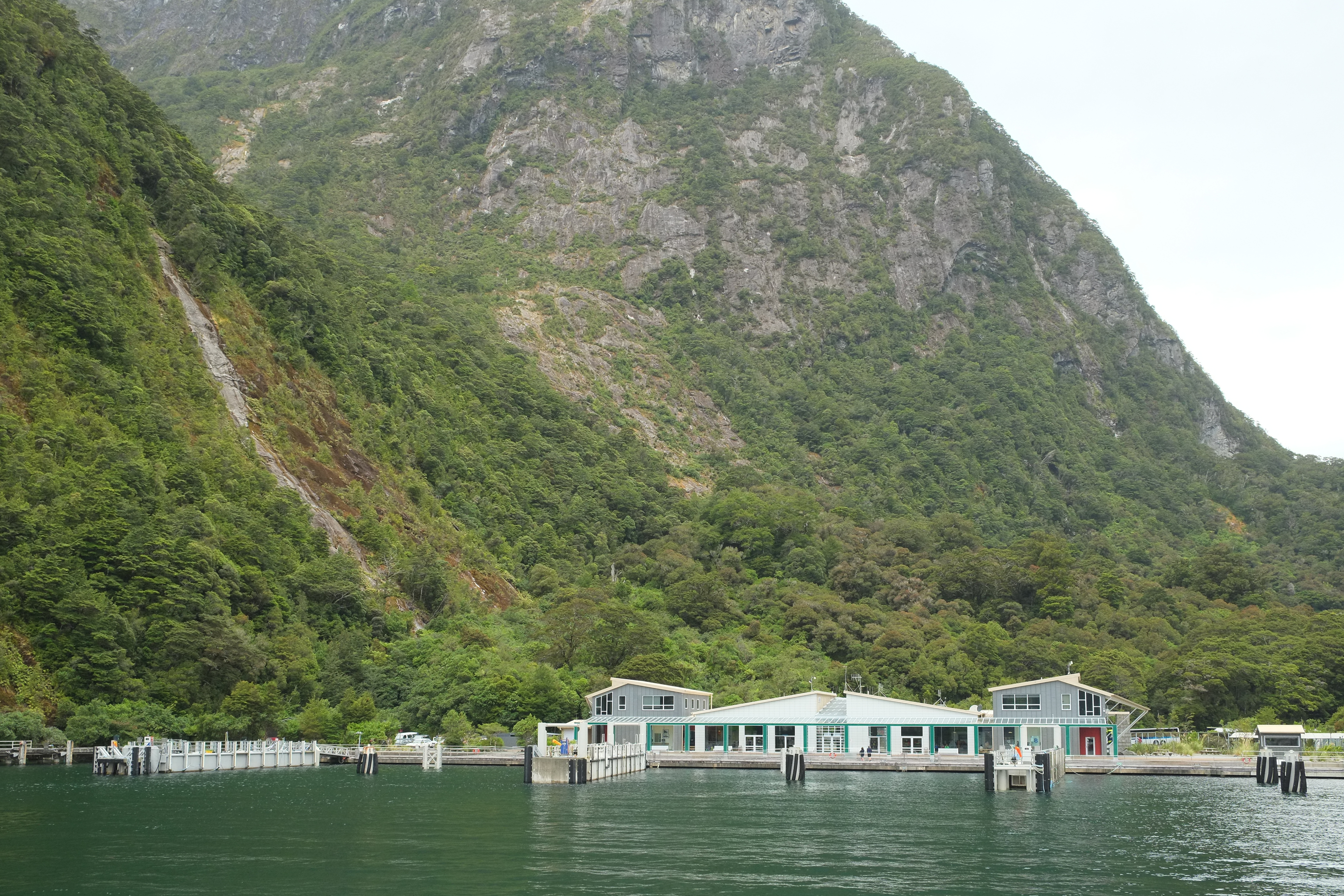 Milford Sound visitor centre and wharf in Freshwater Basin at the end of the road into Milford Sound